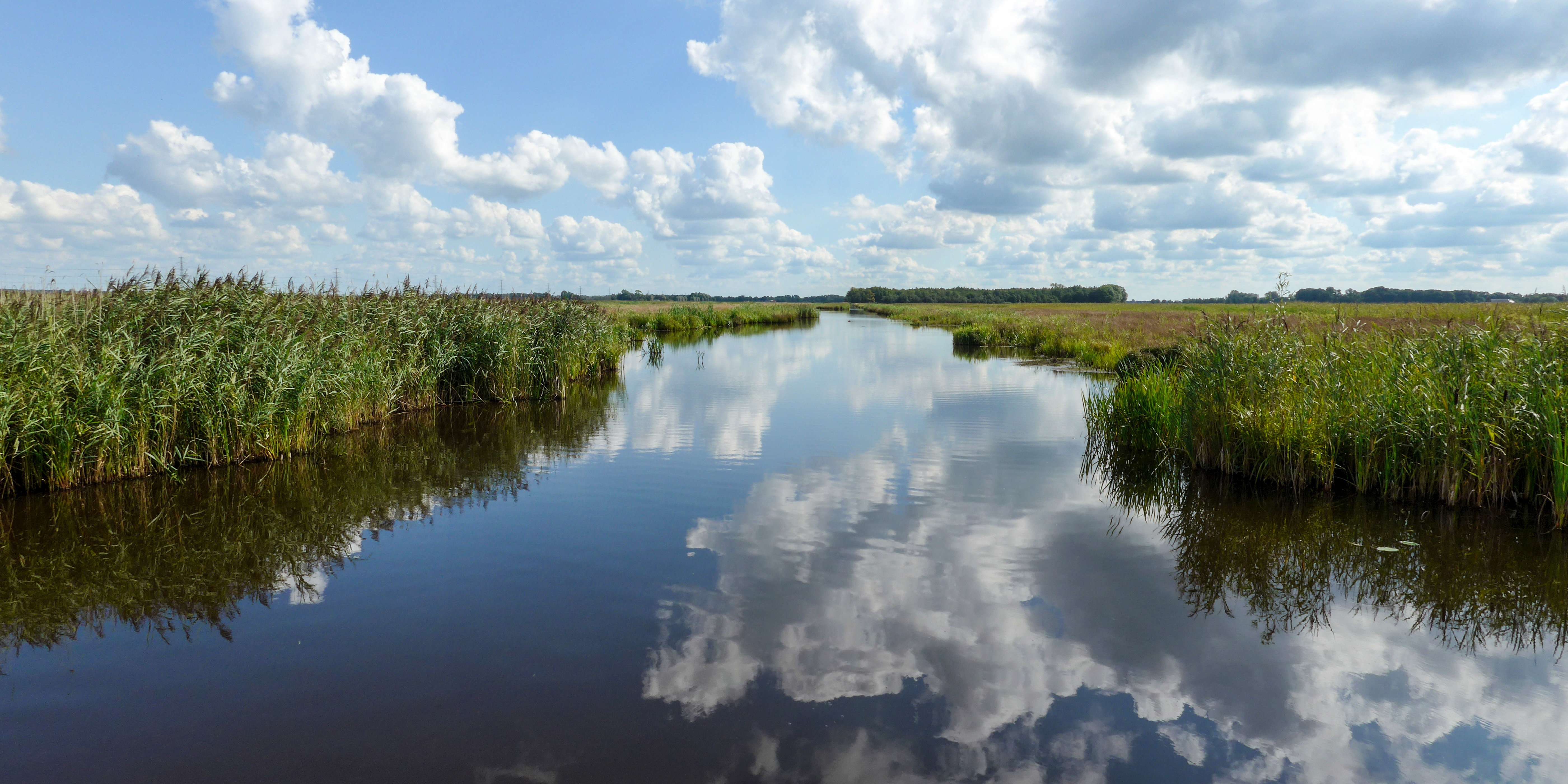 De Onlanden, a nature reserve in the northern part of the Dutch province of Drenthe.